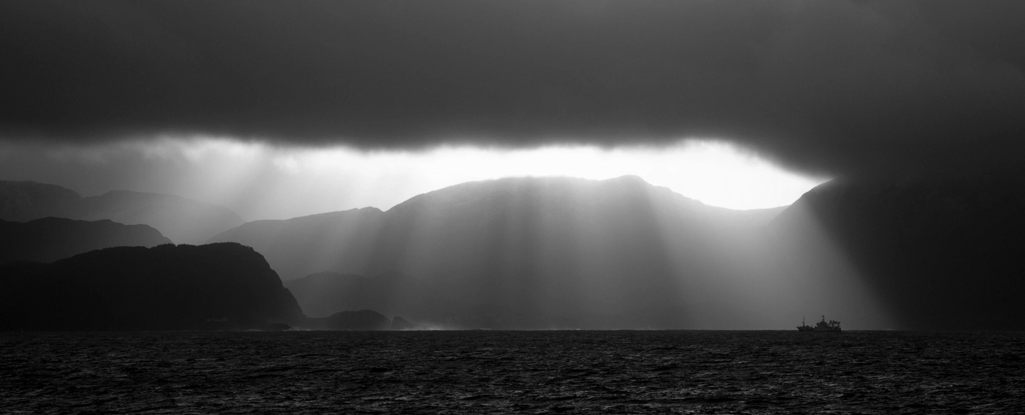 The sea at Indre Fure, in the Stad peninsula. Selje municipality, Norway.